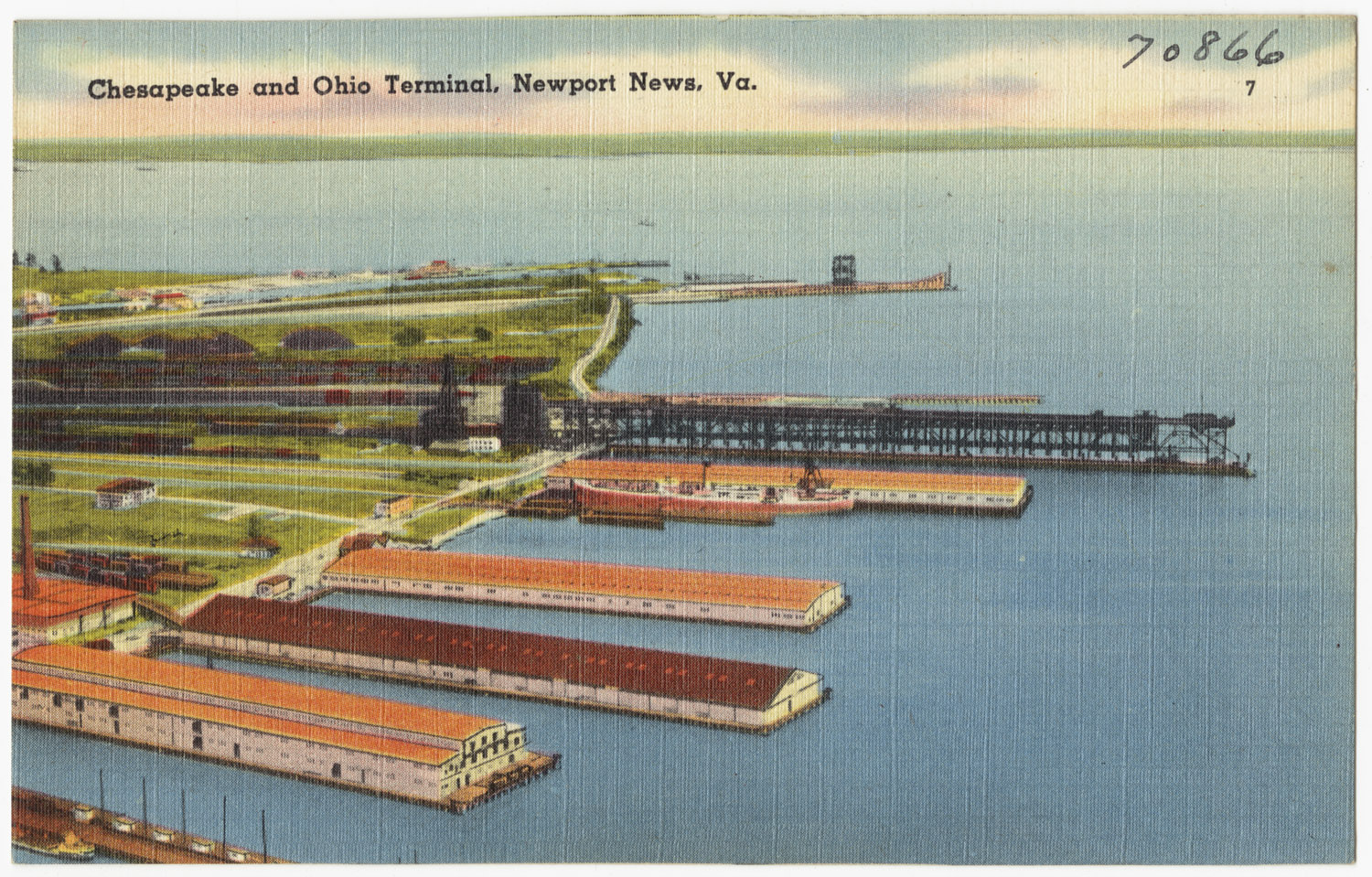 File name: 06_10_021249 Title: Chesapeake and Ohio Terminal, Newport News, Va. Created/Published: Pub. by Dominion News Agency, Newport News, VA. Tichnor Quality Views, Reg. U. S. Pat. Off. Made Only by Tichnor Bros., Inc., Boston, Mass. Date issued: 1930 - 1945 (approximate) Physical description: 1 print (postcard) : linen texture, color ; 3 1/2 x 5 1/2 in. Genre: Postcards Subject: Harbors Notes: Title from item. Collection: The Tichnor Brothers Collection Location: Boston Public Library, Print Department Rights: No known restrictions